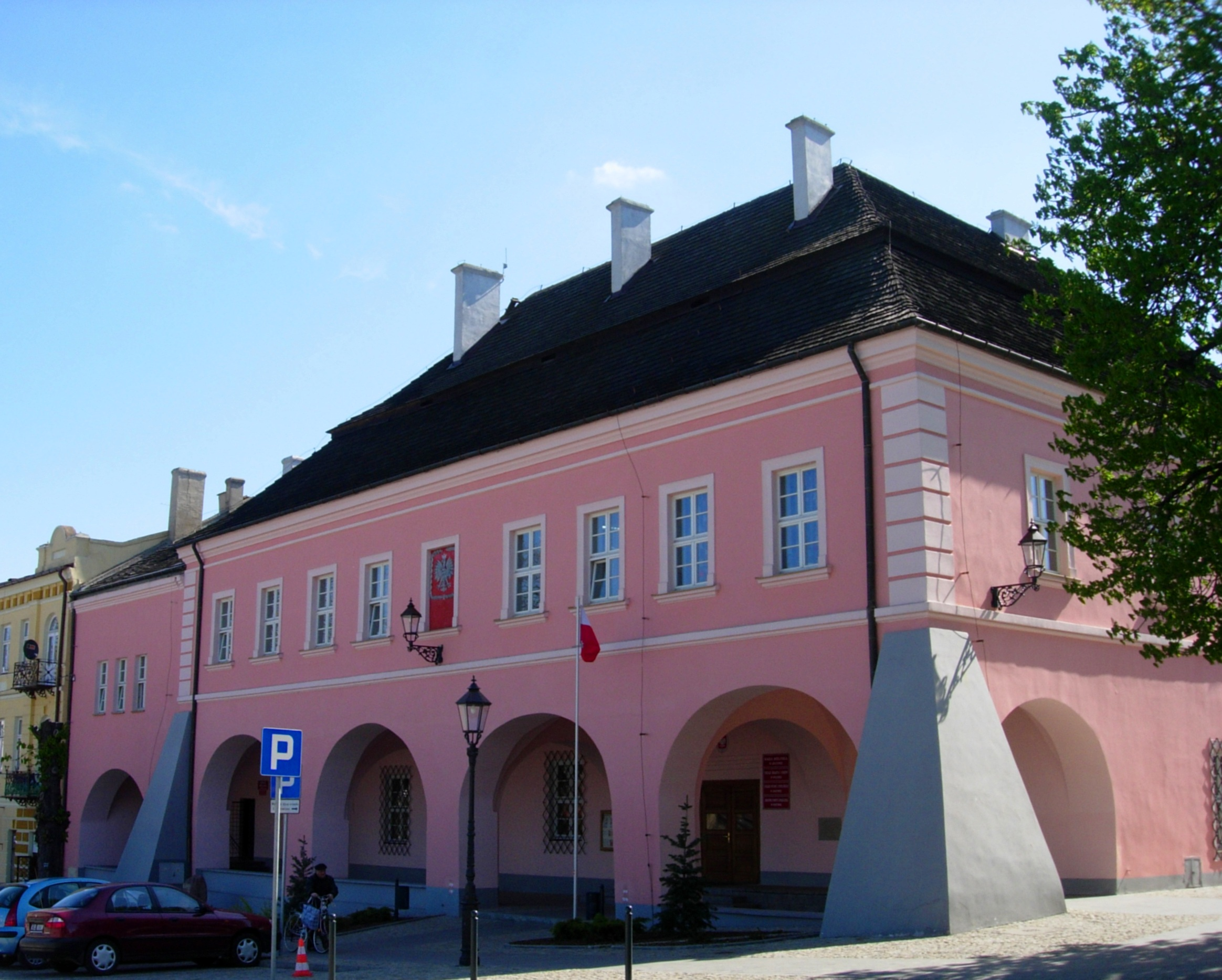 Town hall in Opatów